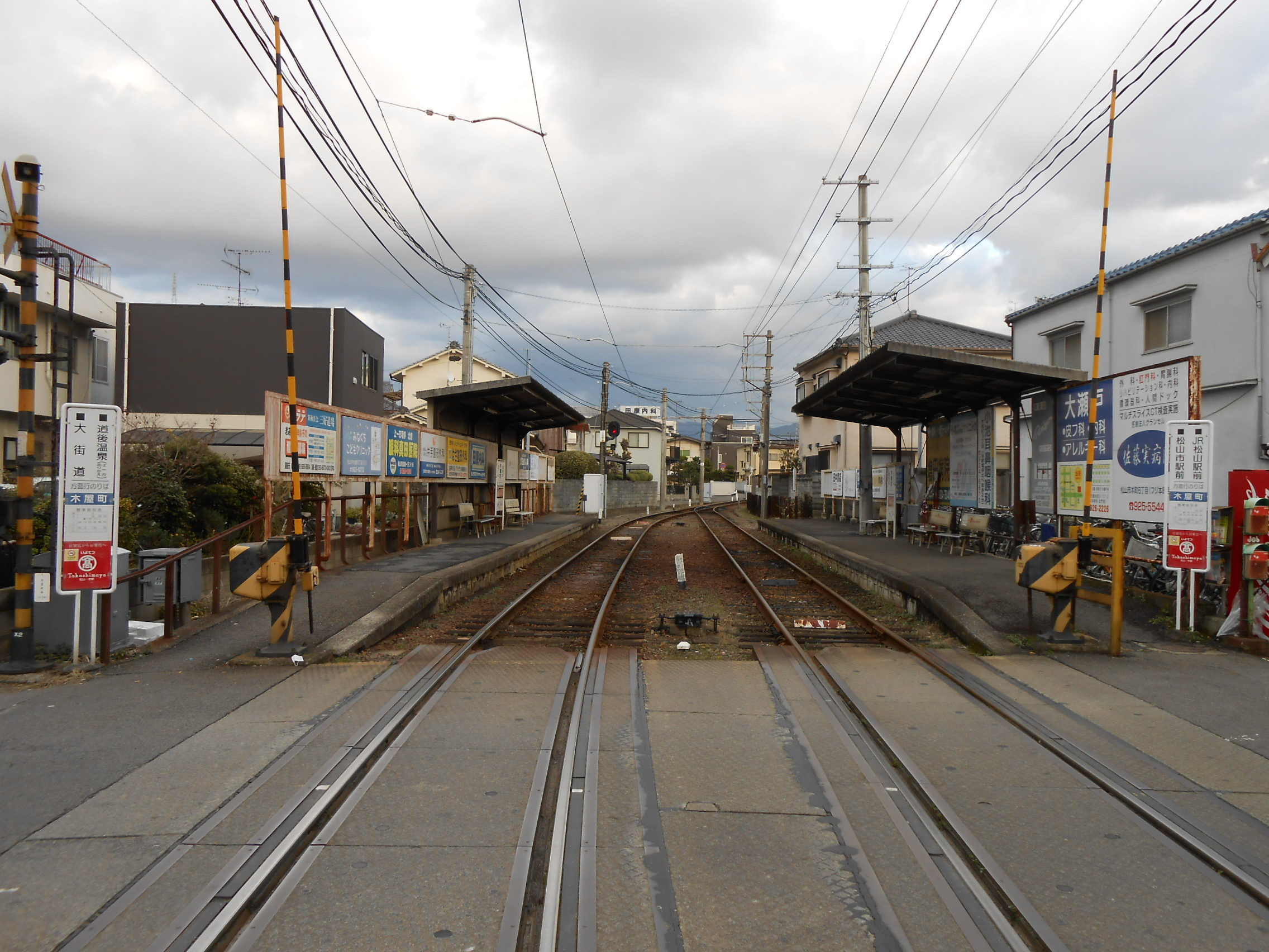 Kiyacho Station on the Iyo RailWay Johoku Line, at Matsuyama City, Japan